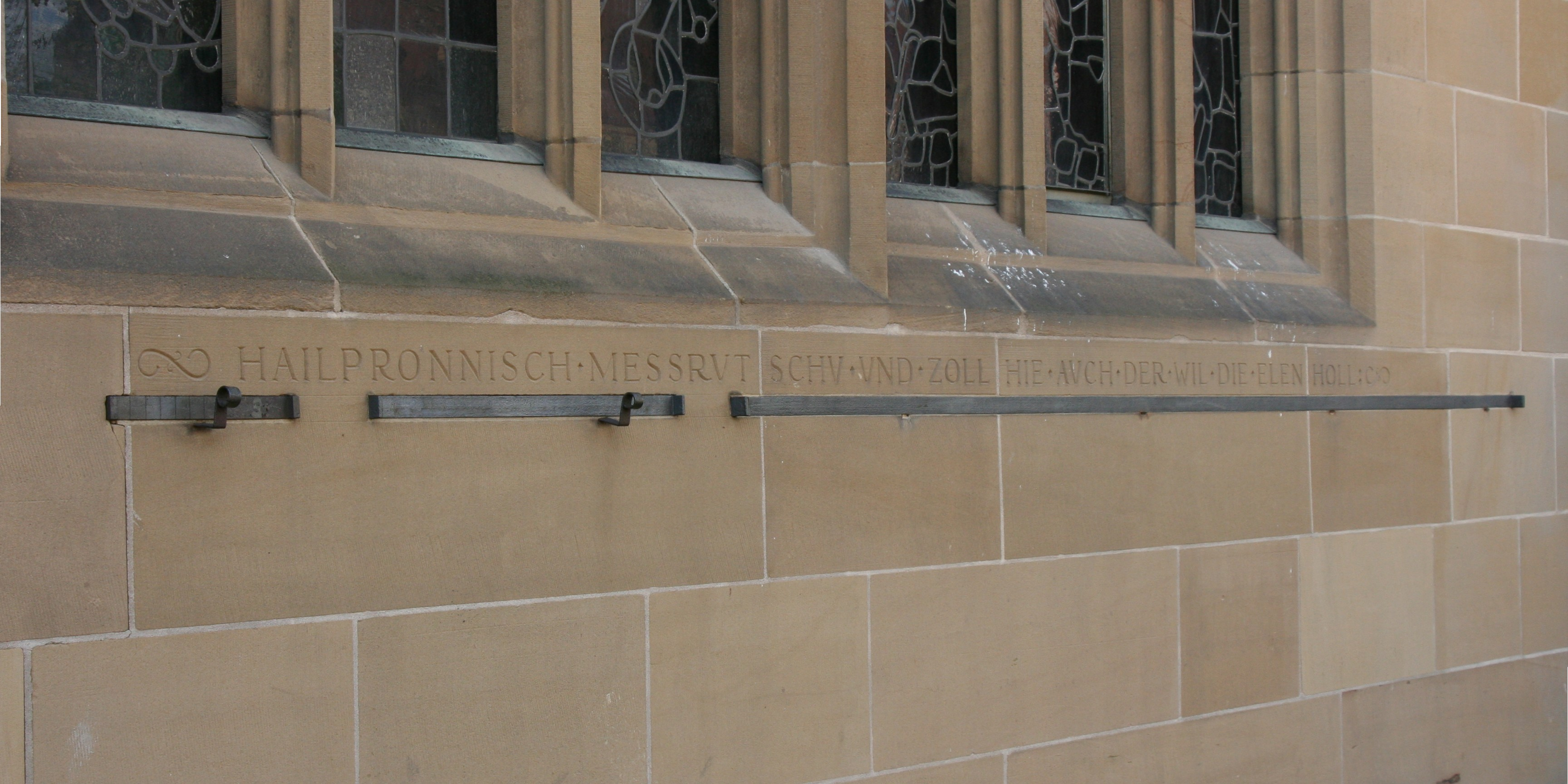 Heilbronn units of length measurement at the St Kilian’s church